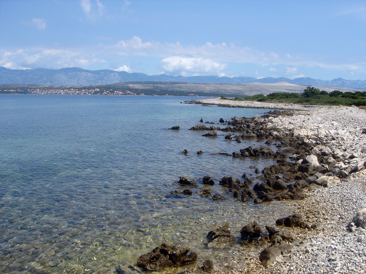 The northern part of the island of Maun, view towards Mandre on the island of Pag.